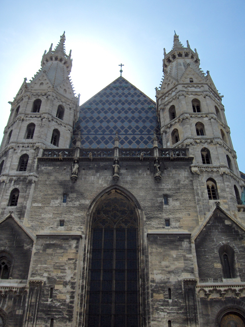 Façade of Stephansdom with the two Roman towers ; Vienna, Austrai